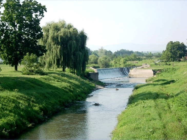 Orljava waterfall and willow tree-symbols of Pleternica